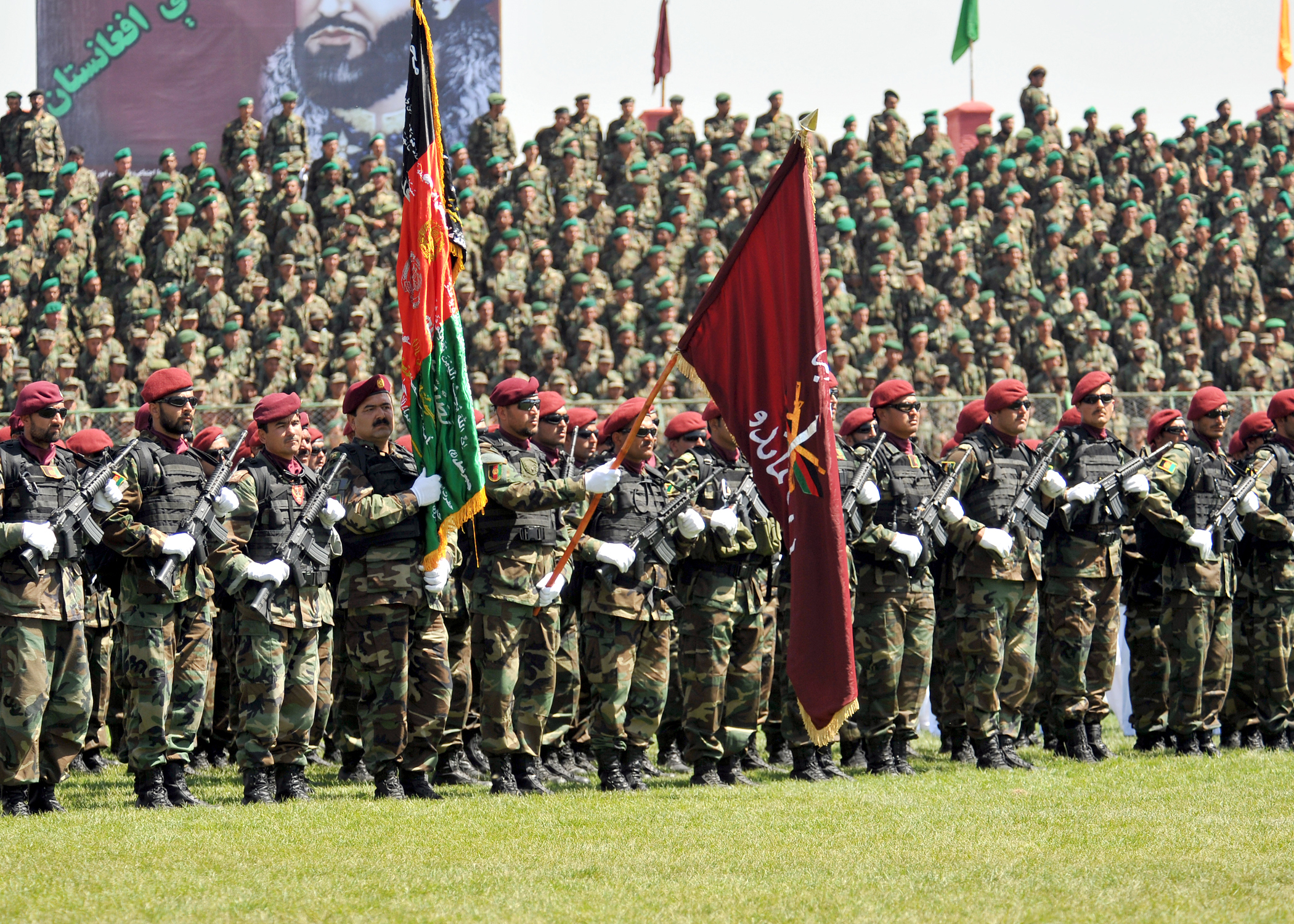 US Army soldiers supervise firing training for soldiers of the Afghan National Army (ANA).